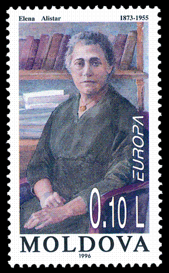 Elena Alistar (1873-1955). Stamp of Moldova